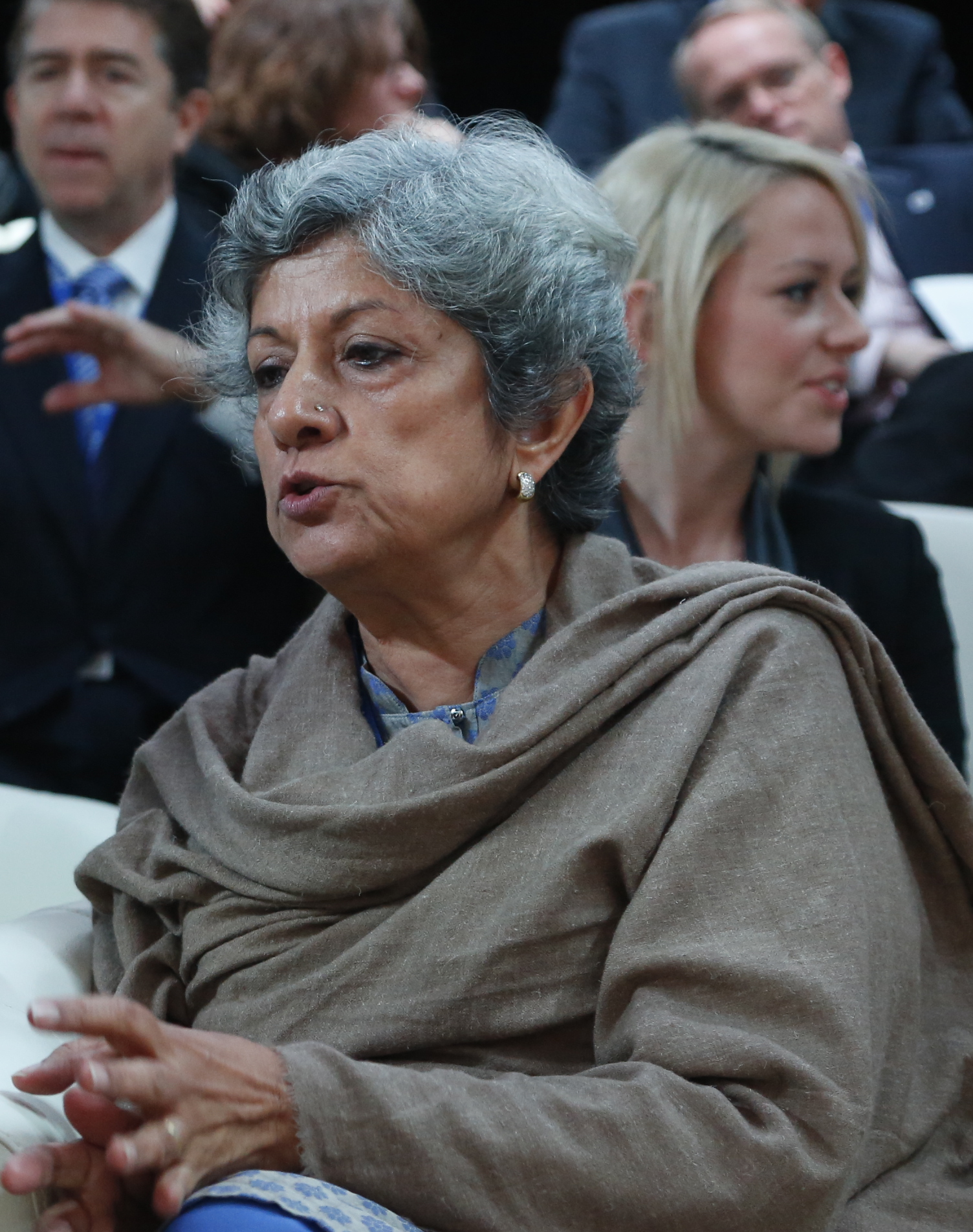 Ambassador Neelam Deo, Director, Gateway House, Indian Council on Global Relations at the 2012 Halifax International Security Forum